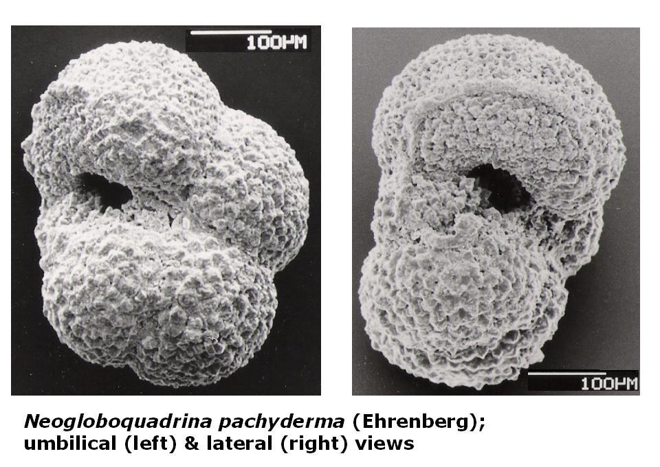 Neogloboquadrina pachyderma (EHRENBERG). Specimen from Late Pliocene of Baja California.